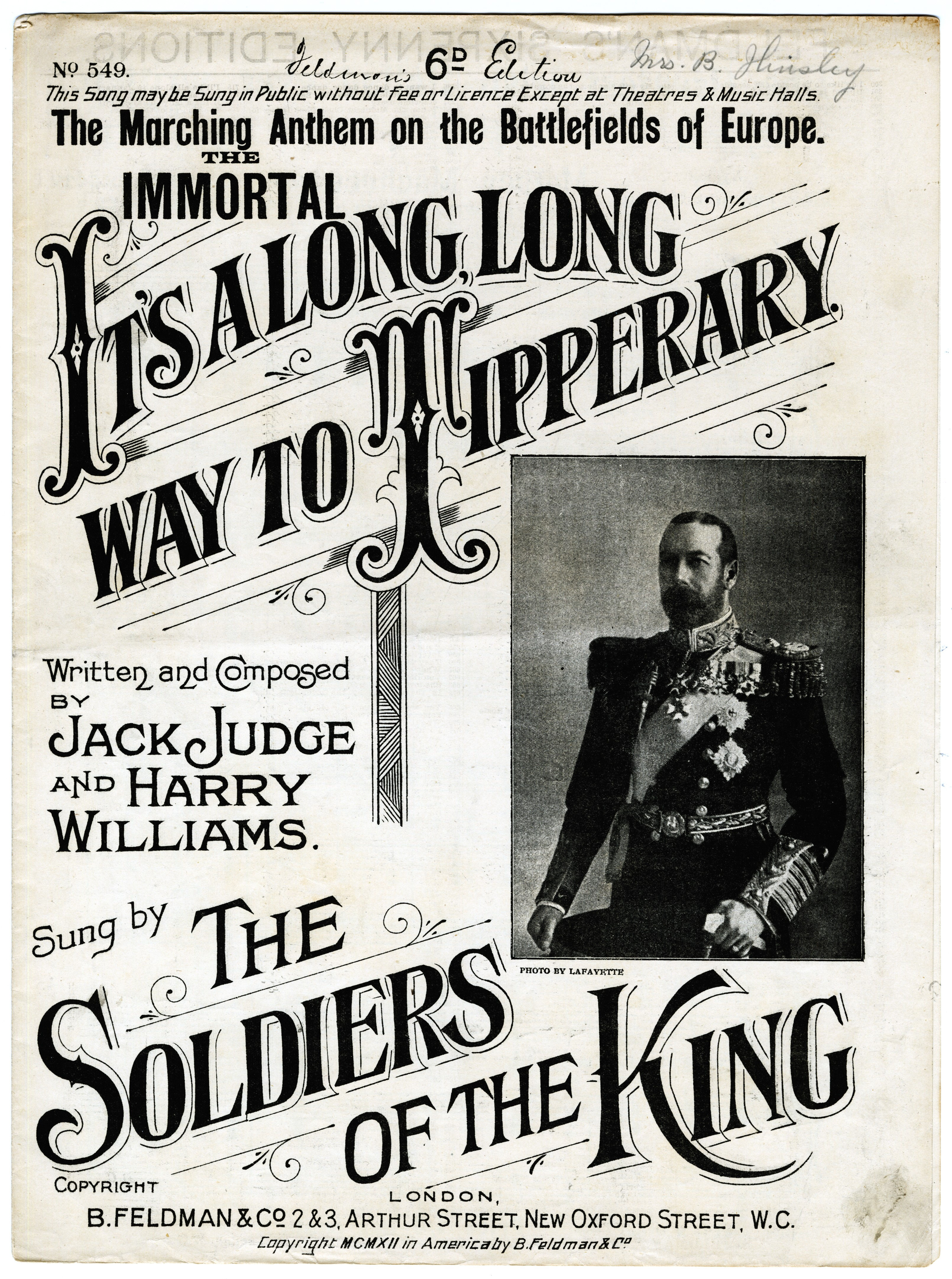 It's a Long Way to Tipperary - sheet music cover (UK issue)